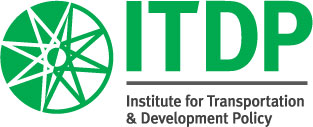 Stacked ITDP Logo